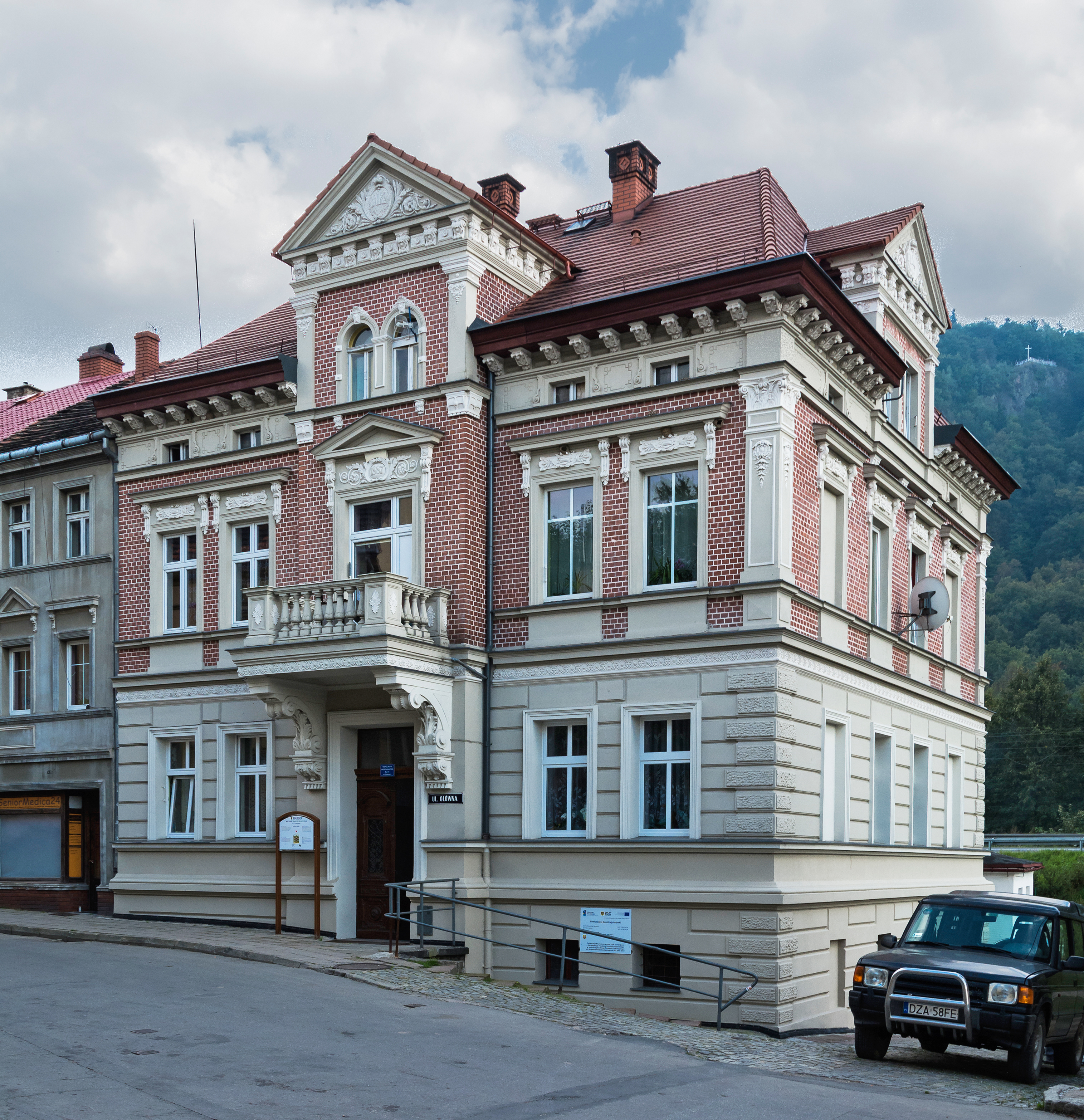 6 Główna Street in Bardo